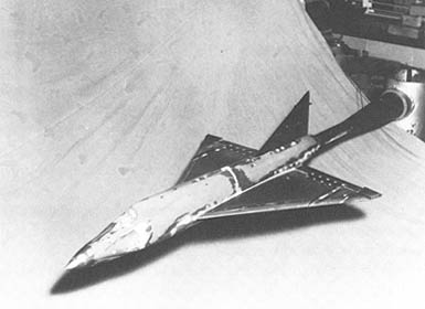 An area-rule-based model of the Convair F-102 being readied for testing in the shop of the 8-Foot HST, November 1958.